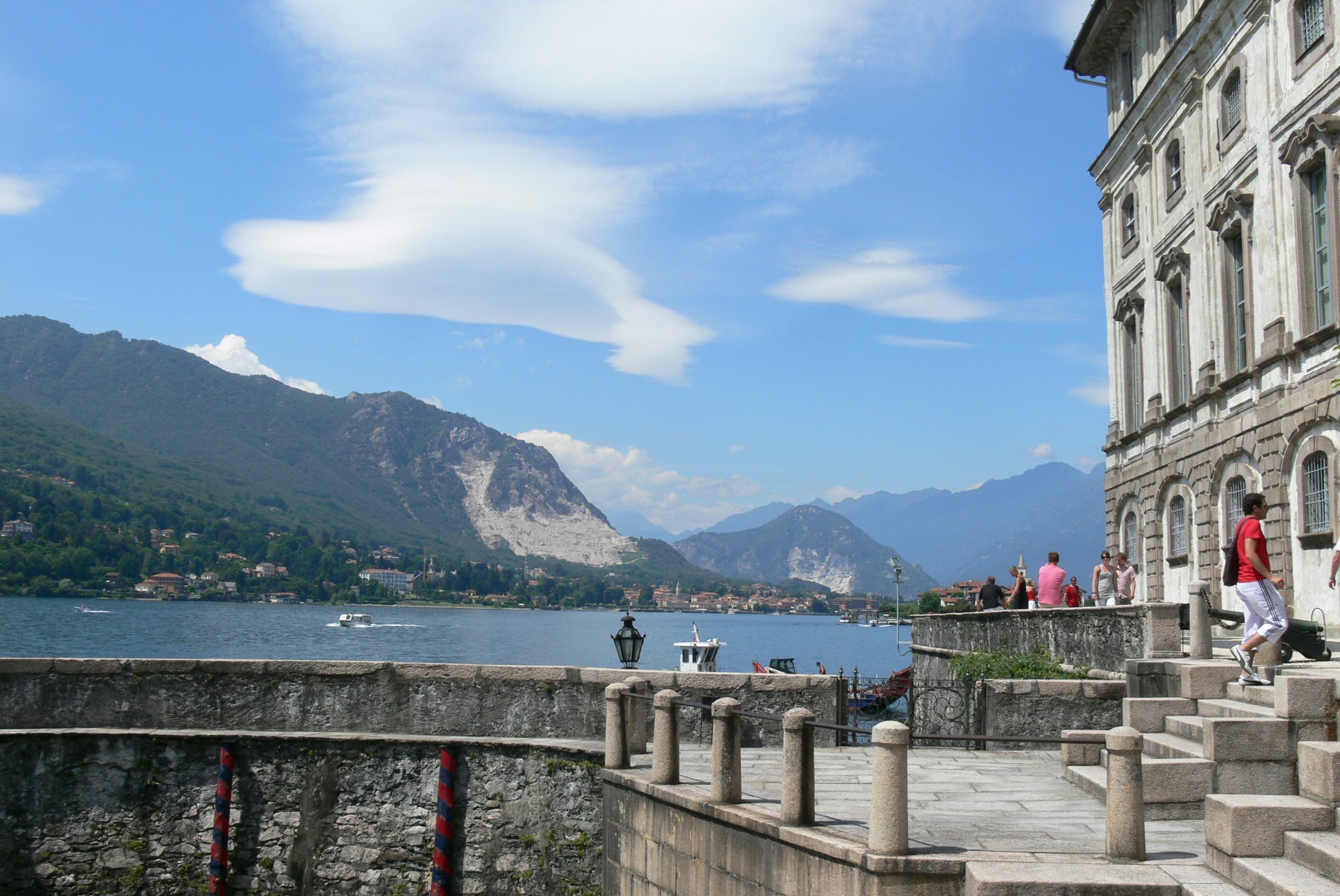 Isola Bella ( Lago Maggiore ). View from the Borromean palace to the lake.